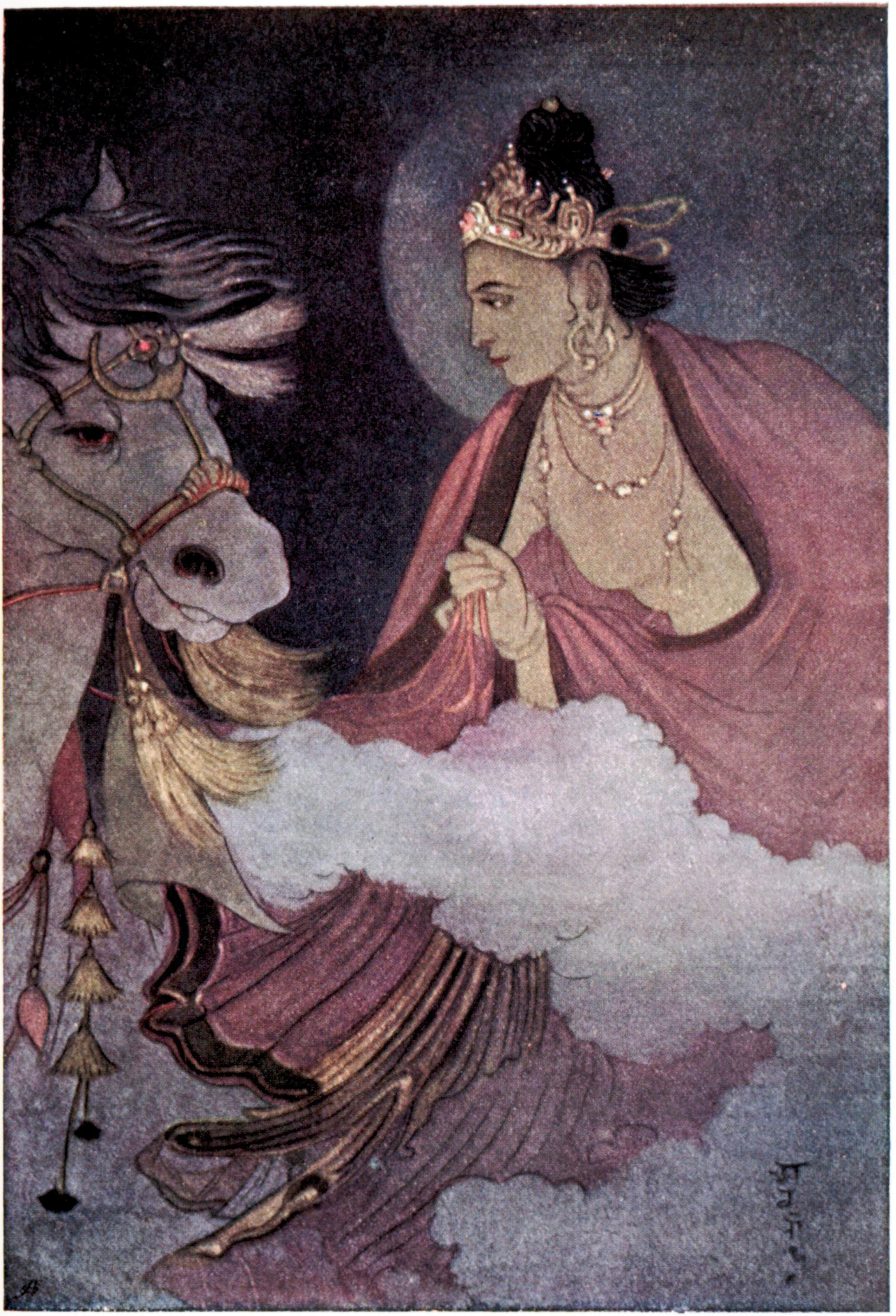 Myths of the Hindus & Buddhists (1914) Author: Nivedita, Sister, 1867-1911; Coomaraswamy, Ananda Kentish, 1877-1947 Subject: Mythology, Hindu; Mythology, Indic; Buddha and Buddhism Publisher: London Harrap Possible copyright status: NOT_IN_COPYRIGHT Language: English Call number: AAV-0085 Digitizing sponsor: MSN Book contributor: Robarts - University of Toronto Collection: robarts; toronto Full catalog record: MARCXML [Open Library icon]This book has an editable web page on Open Library. Be the first to write a review Downloaded 855 times Reviews Selected metadata Identifier: mythsofthehindus00niveuoft Copyright-evidence-operator: University of Toronto scanning center Copyright-region: US Copyright-evidence: Evidence reported by University of Toronto scanning center for item mythsofthehindus00niveuoft on May 12, 2006; no visible notice of copyright and date found; stated date is 1914; not published by the US government; Have not checked for notice of renewal in the Copyright renewal records. Copyright-evidence-date: 2006-05-12 20:39:44 Scanningcenter: UofT Operator: scanner-joanna-woodcock Mediatype: texts Scanner: uoft3 Scandate: 20060517130853 Imagecount: 518 Sponsordate: 20060531 Filesxml: Thu Mar 18 6:17:31 UTC 2010 Ppi: 500 Identifier-access: Identifier-ark: ark:/13960/t50g4p70x